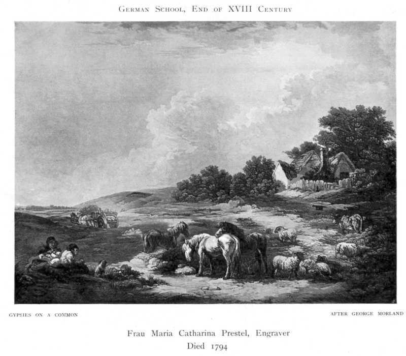 1905 print after page of Women painters of the world, from the time of Caterina Vigri, 1413-1463, to Rosa Bonheur and the present day, by Walter Shaw Sparrow, The Art and Life Library, Hodder & Stoughton, 27 Paternoster Row, London